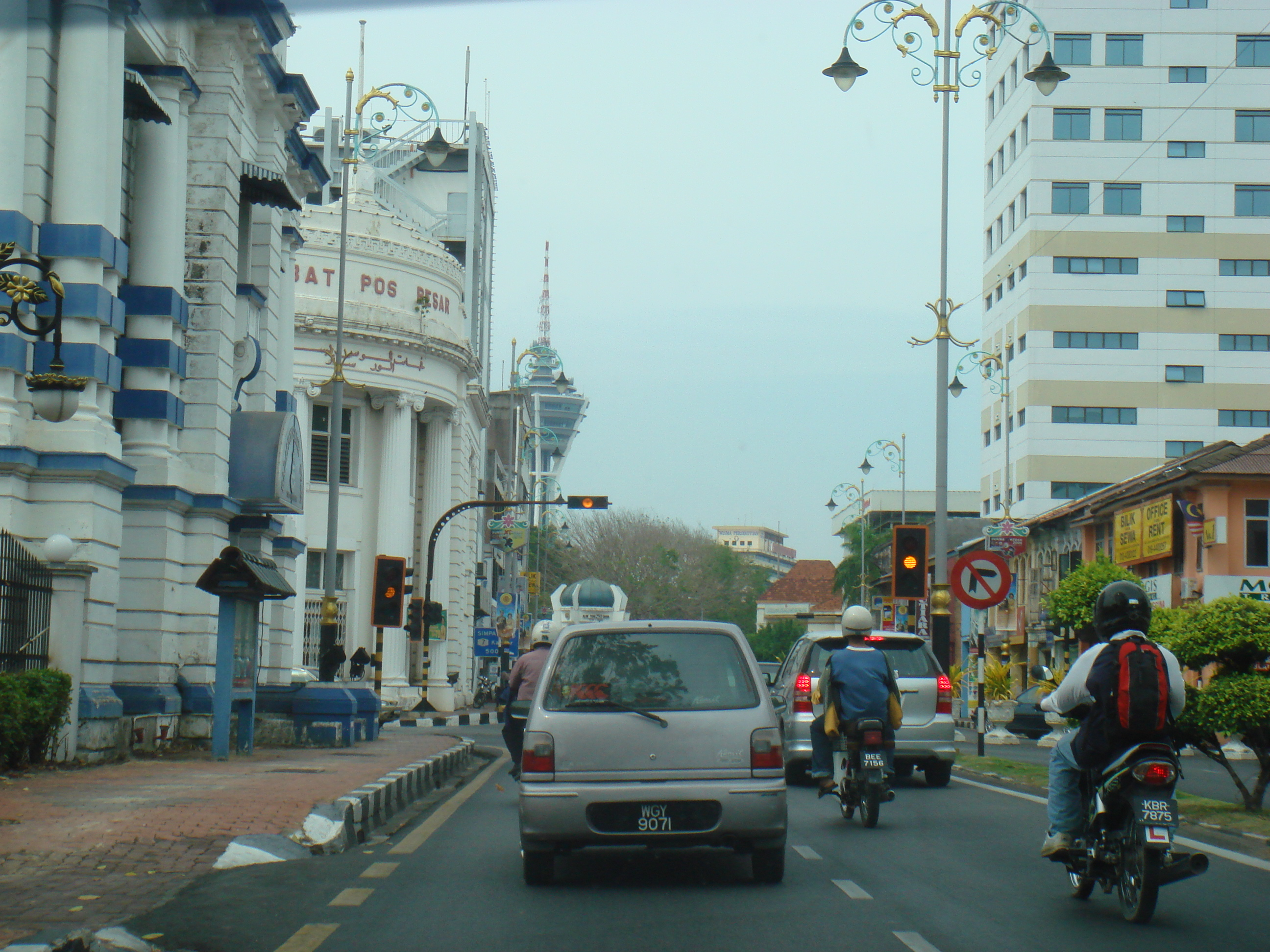 Street in Alor Setar, Malaysia